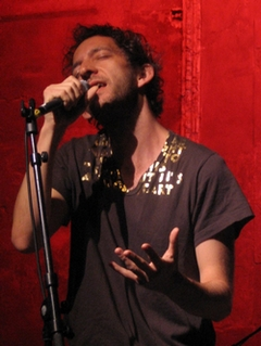 Arthur H in concert